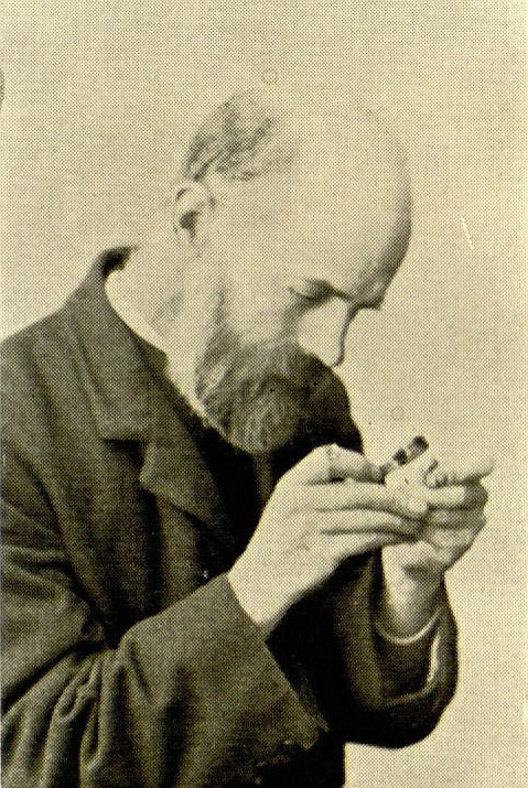 William Richardson Linton, author of the Flora of Derbyshire, 1903, and Vicar of Shirley. Image taken from Linton's obituary, Journal of Botany Vol 46, p 64-71, 1908.Presumed to have been taken by his brother, E.F.Linton, author of the obituary.